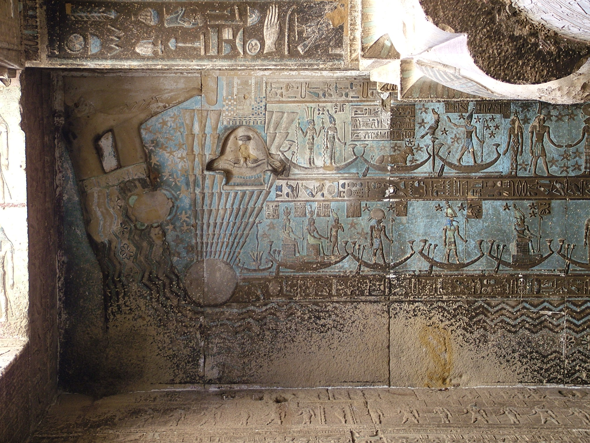 The ceiling of the pronaos of the Dendara temple, Egypt